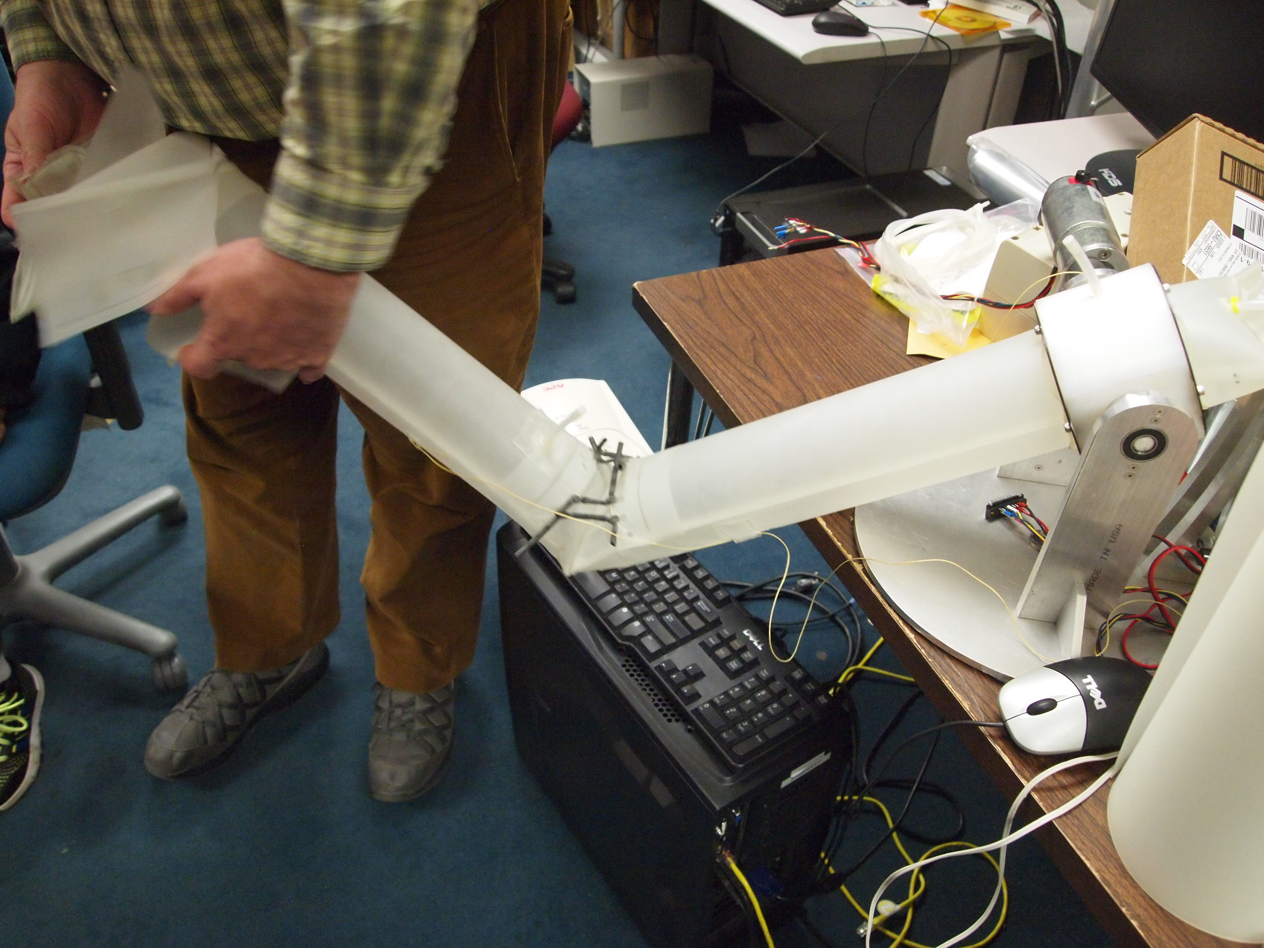 This is an inflatable robotic arm at the Robotics Institute of Carnegie Mellon University that helped inspire the production team of Disney’s Big Hero 6 in Baymax's design.